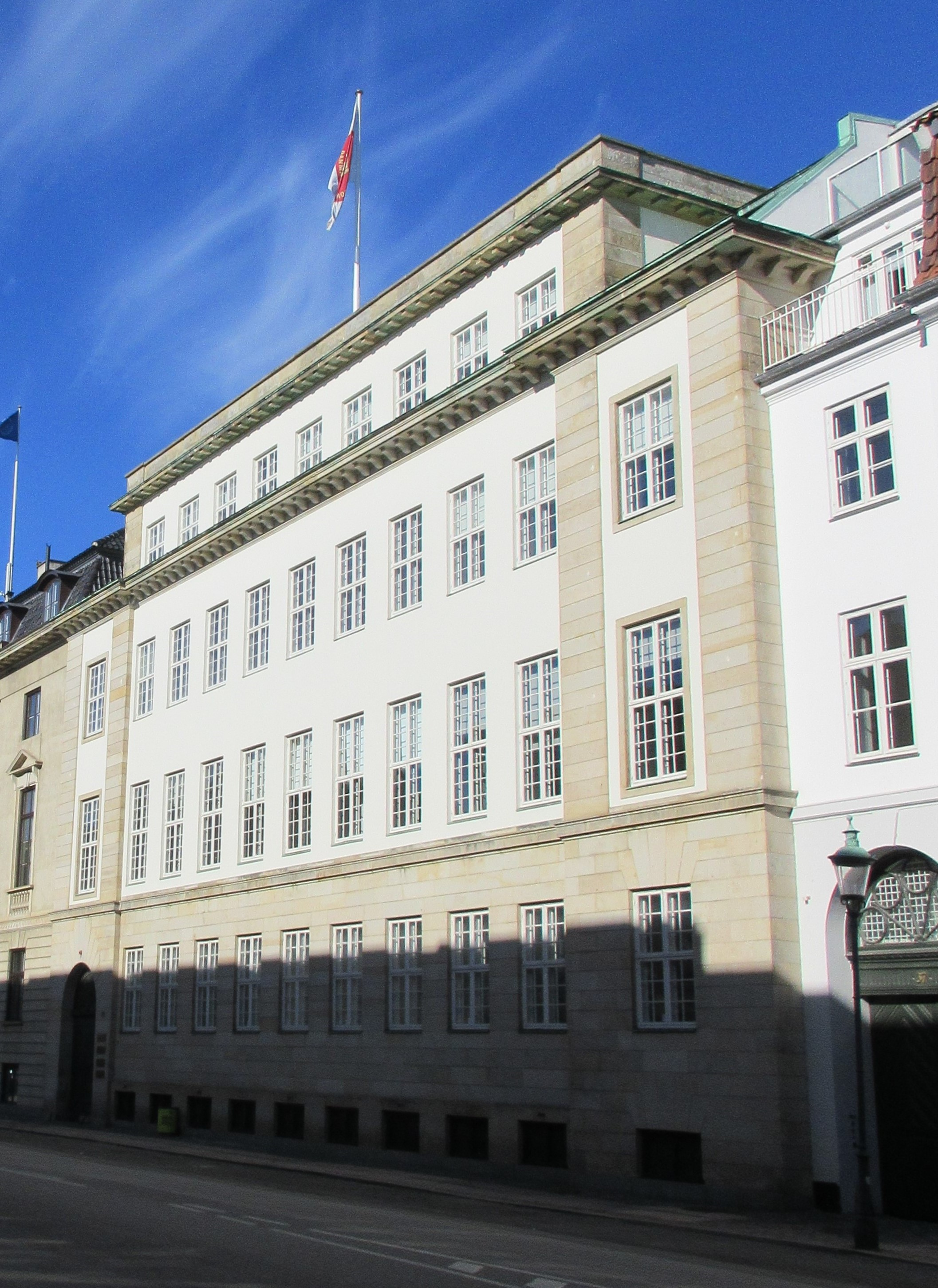 Amaliegade 35 in Copenhagen, Denmark